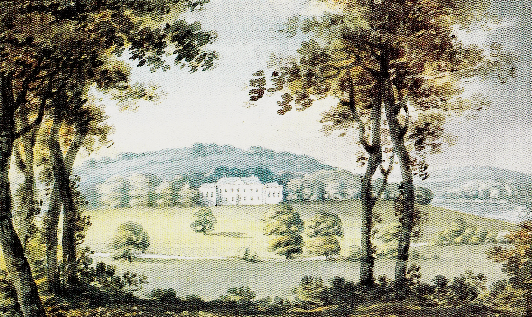 "Downes, seat of James Buller Esq", watercolour by Rev. John Swete (1752-1821) dated 1797. Devon Record Office 564M/F11/147